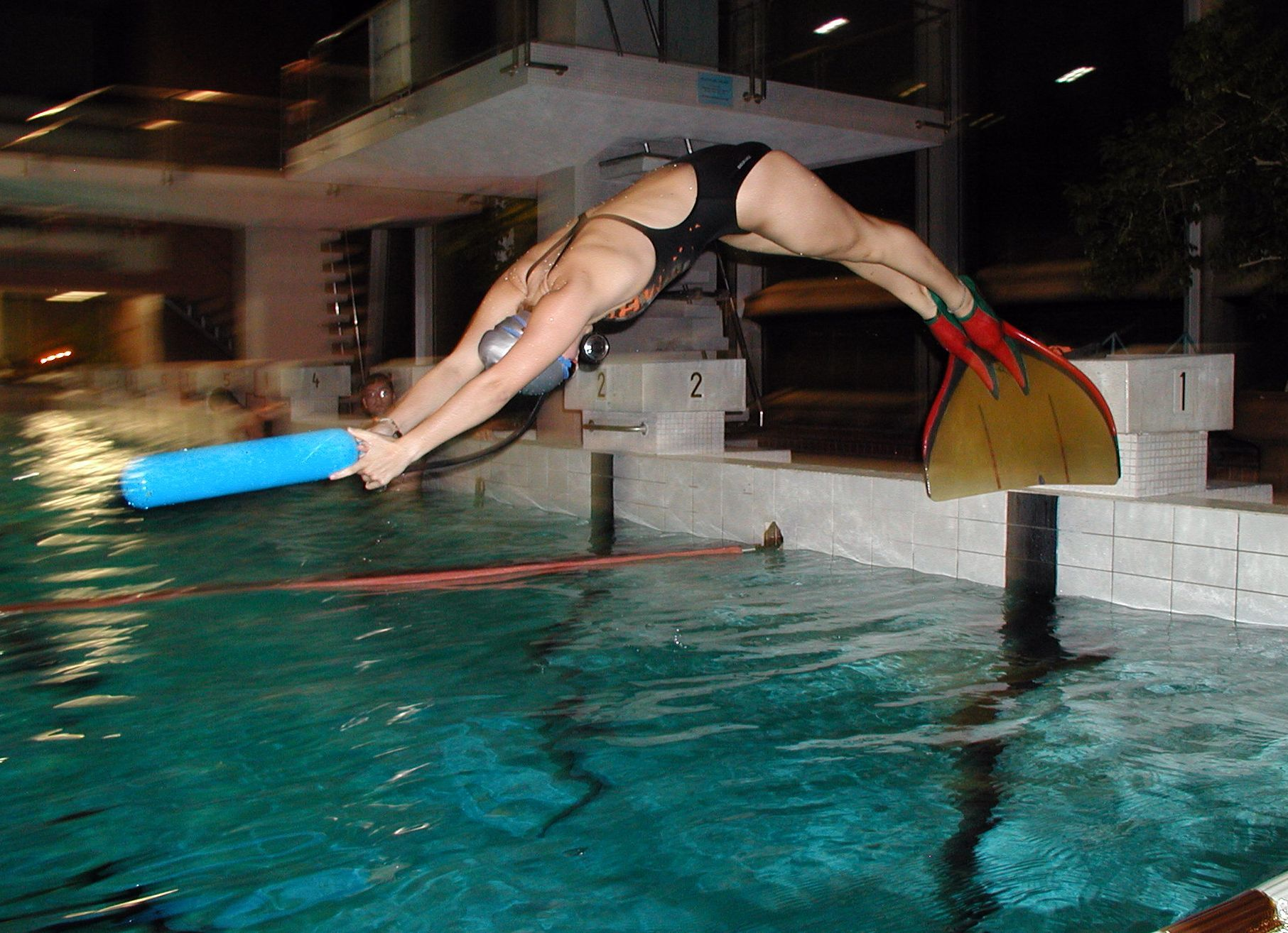 Nada Tylova, CZ